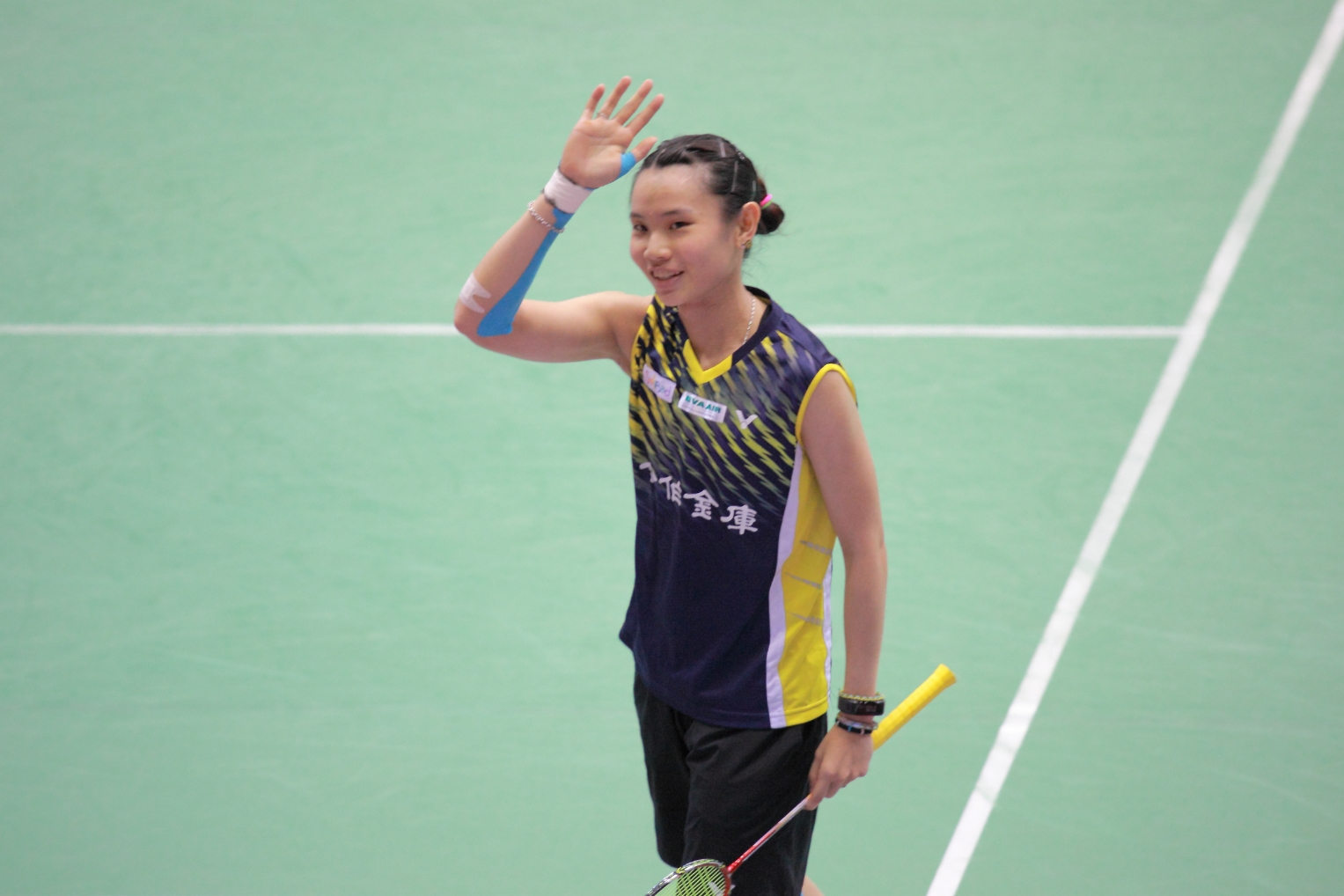 Yonex Chinese Taipei Open 2016 - Quarterfinal - Tai Tzu-ying vs Ho Yen Mei